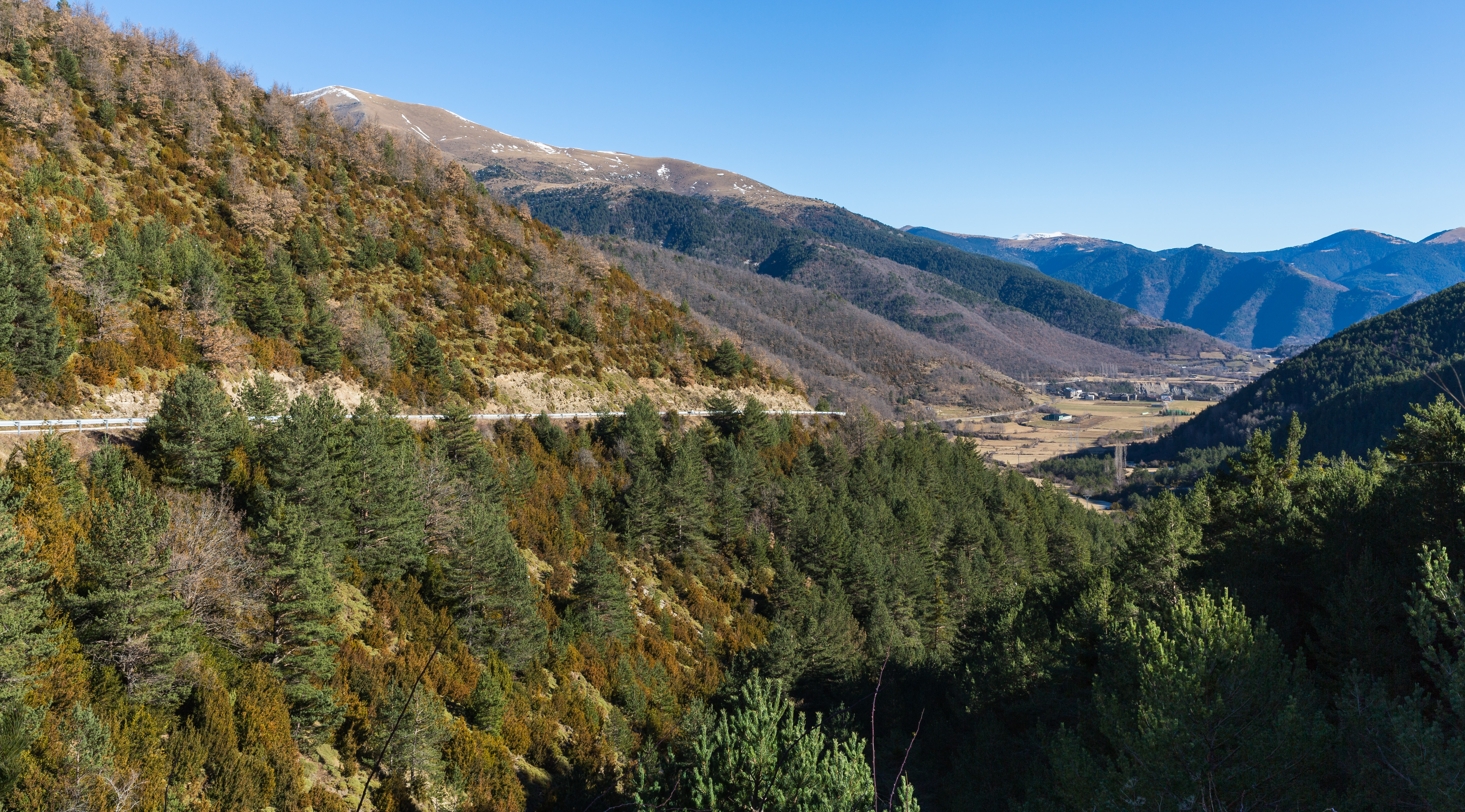 Barranco del Monte, SCI Pass of Otal - Cotefablo, Linás de Broto, provincia de Huesca, Spain.